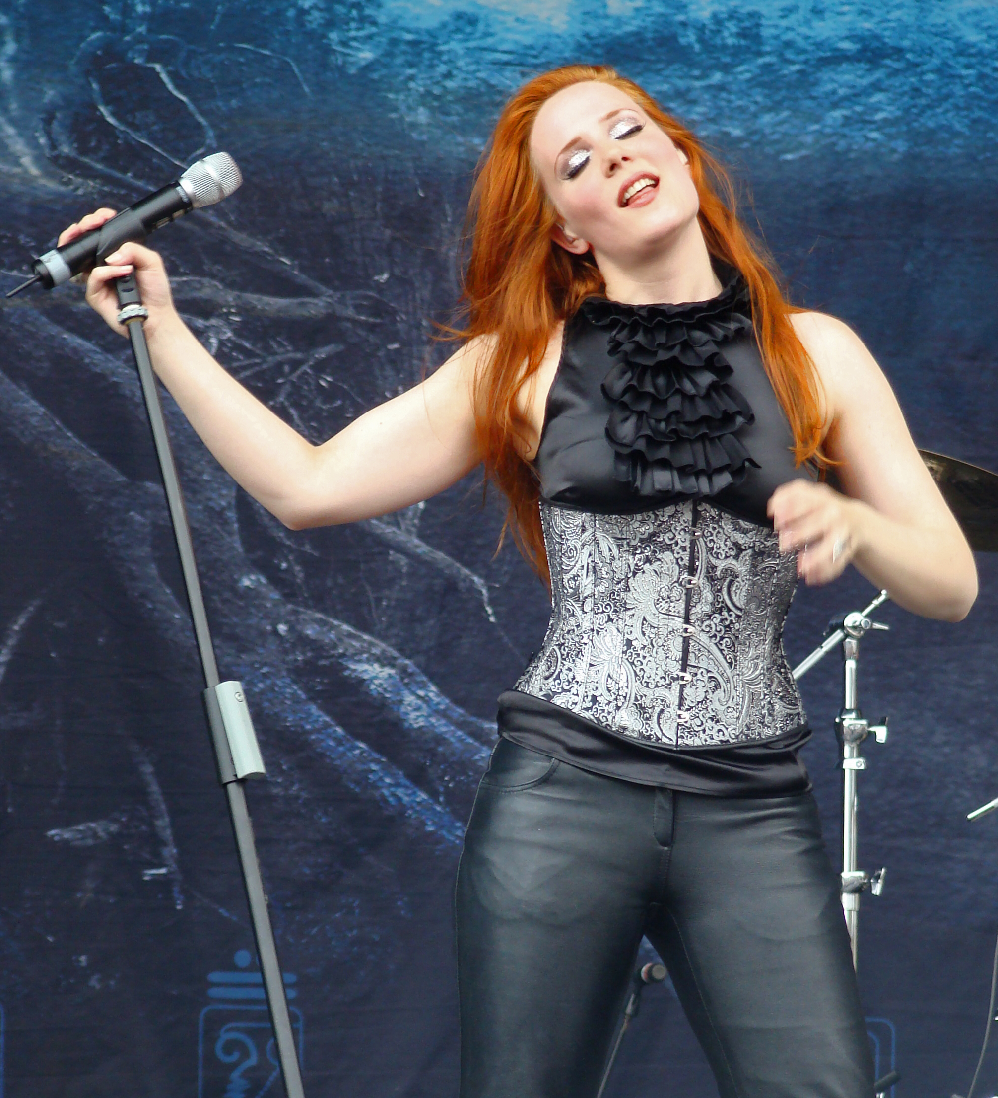 Simone Simons, Epica